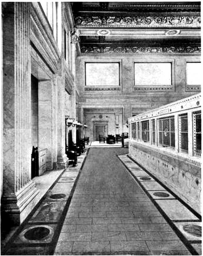 Looking north into the main banking room of the Citizens Building, located at 850 Euclid Avenue in Cleveland, Ohio, in the United States. The building was completed in 1903, and designed by the architectural firm of Hubbel & Benes.